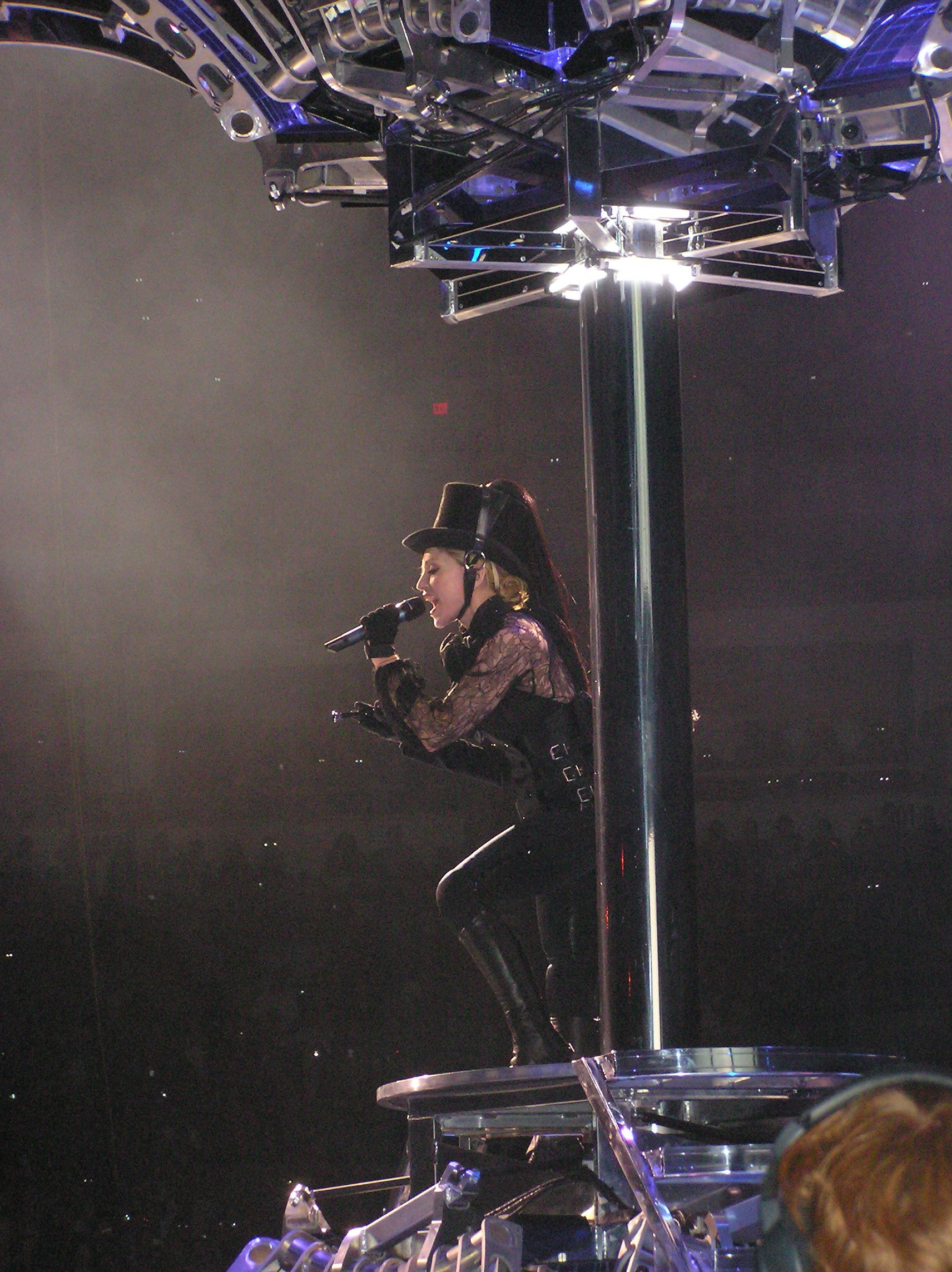 Madonna concert in Fresno